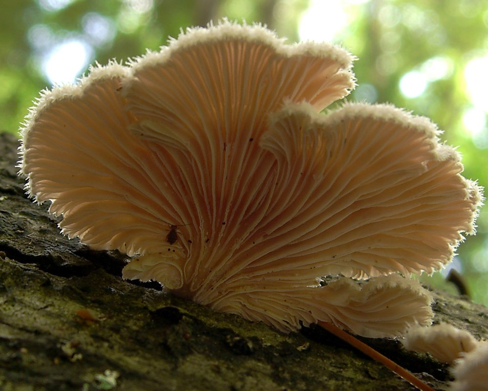 Scientific Name: Schizophyllum commune Common Name: Common Split Gill Certainty: positive (notes) Location: Southern Appalachians; Smokies; CabinCove Sadly-underexposed shot of the characteristic split gills. This is a fascinating organism with thousands of sexes (I'm not kidding -- look it up on wikipedia).